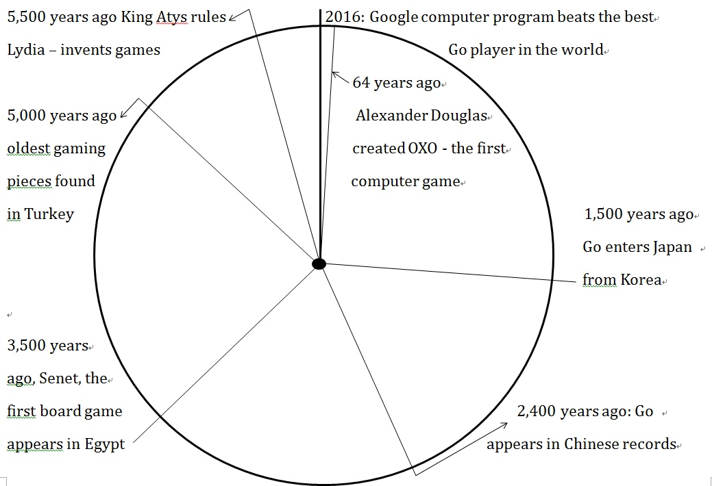 This pie chart illustrates the timeline for the history of games.